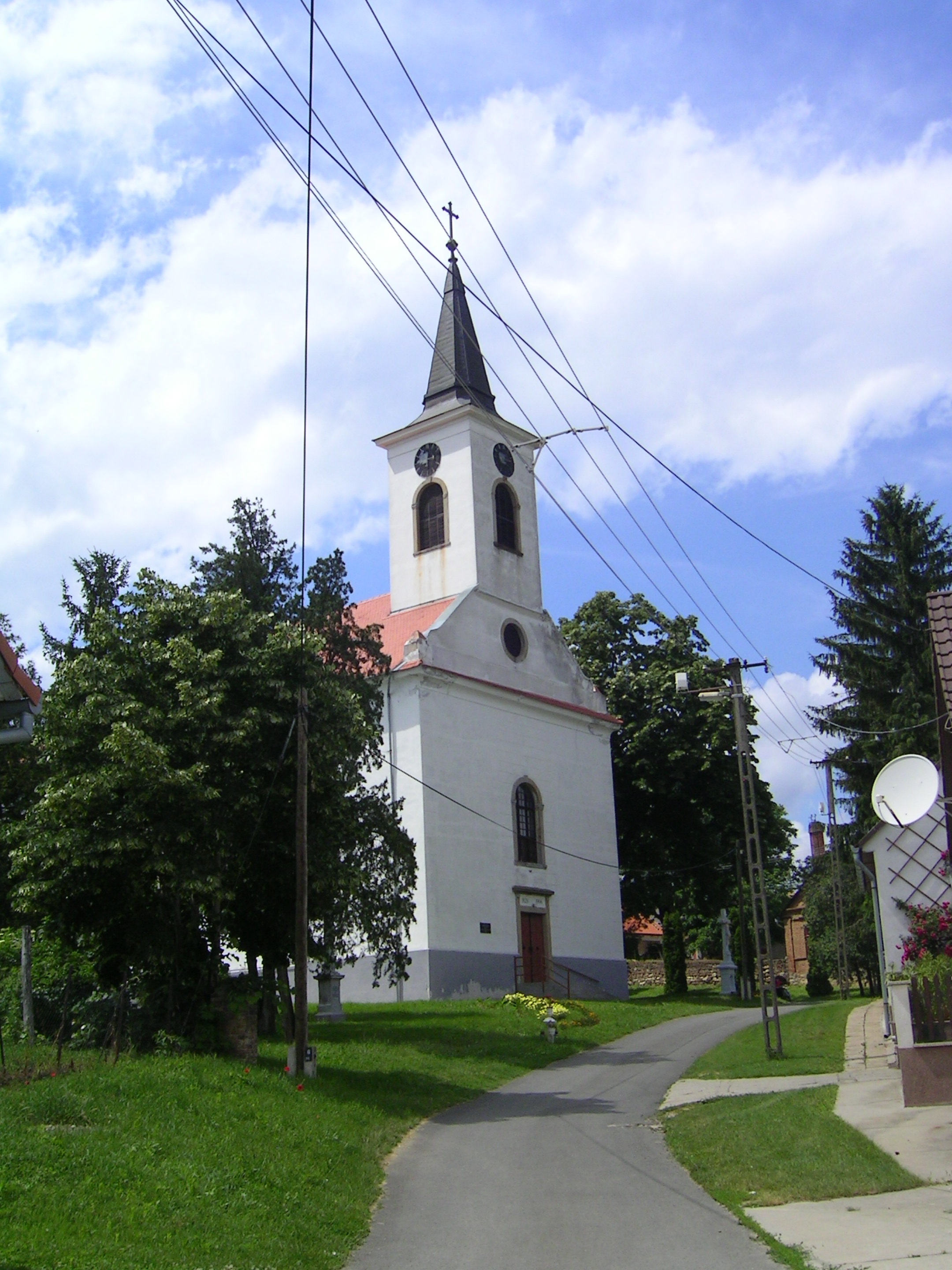 Roman catholic church in Geresdlak, Hungary